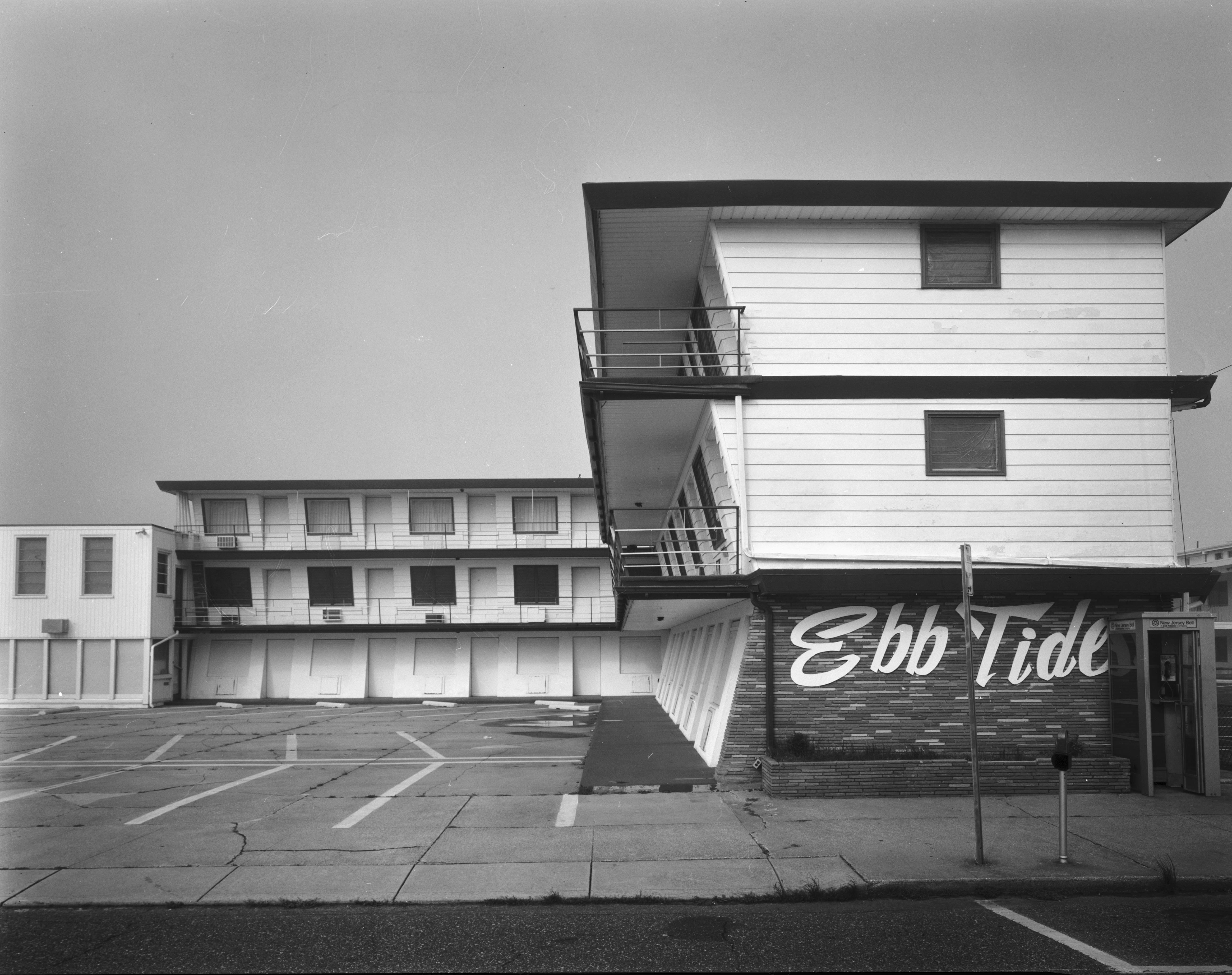 Ebb Tide Motel, now destroyed, taken by HABS photographer David Ames. Ebb Tide was a famous example of the Doo Wop or Googie architectural style (note L shaped layout, leaning walls, prominent parking)